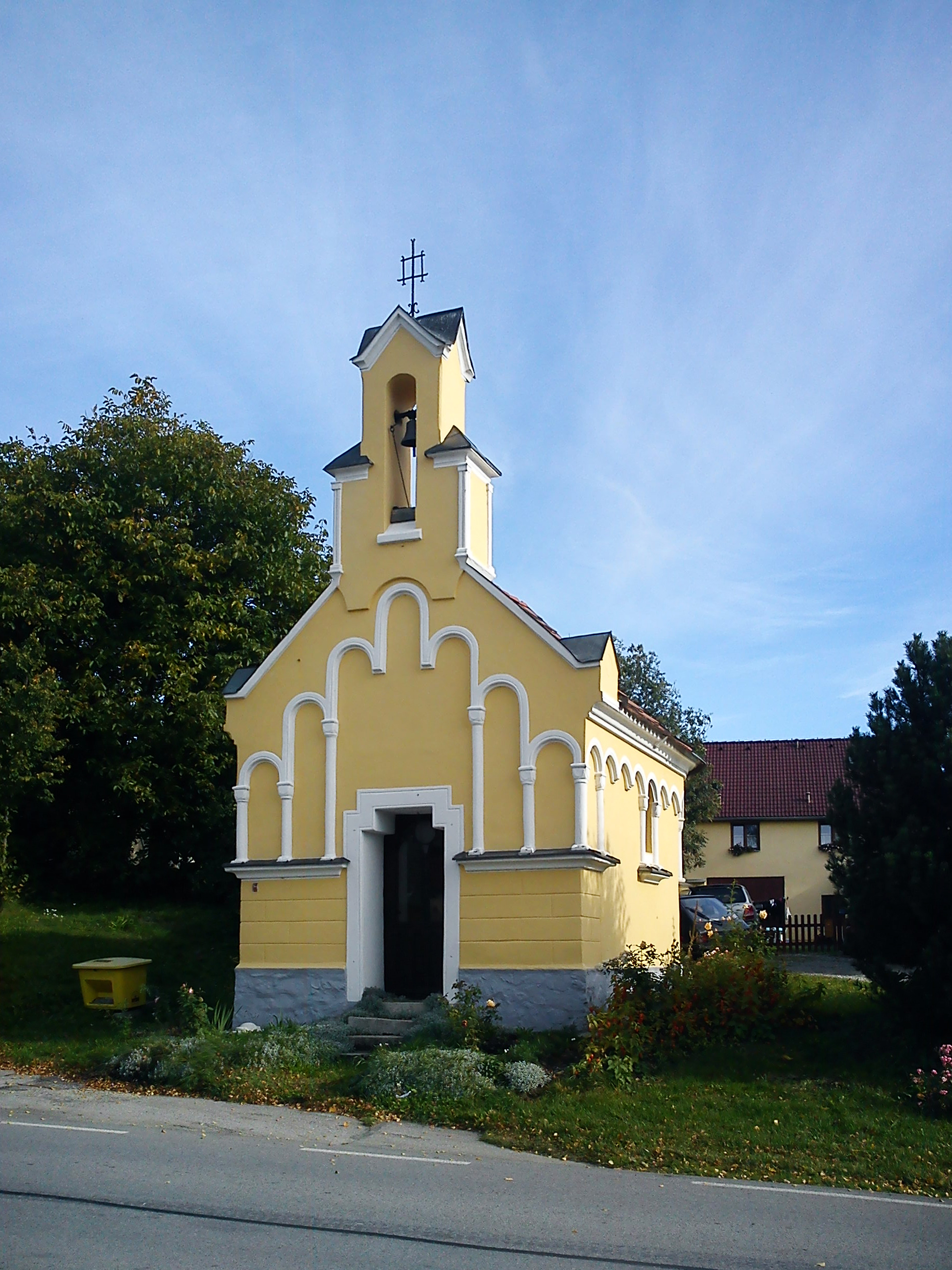 Chapel in the village of Srnín, Český Krumlov District, South Bohemian Region, Czech Republic. Česky: Kaple v obci Srnín, okres Český Krumlov.